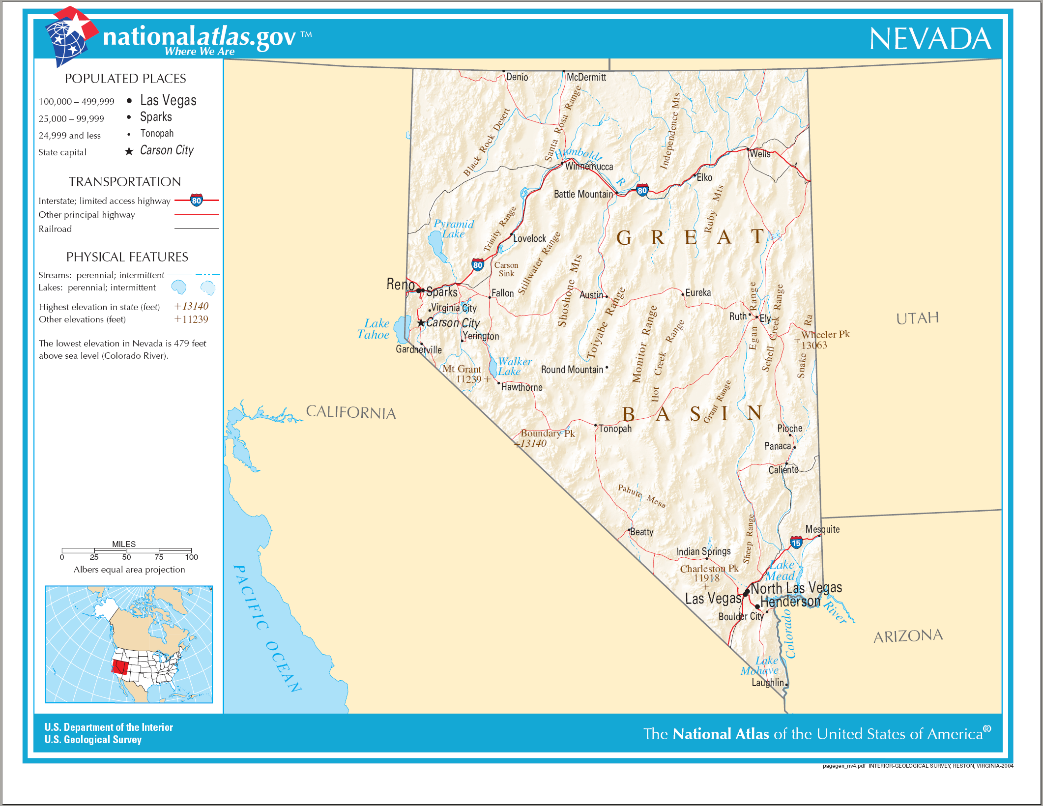 Map of Nevada